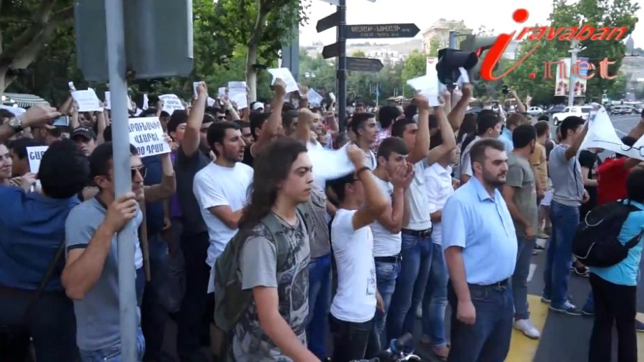 Protests in Yerevan against public transportation fare increase